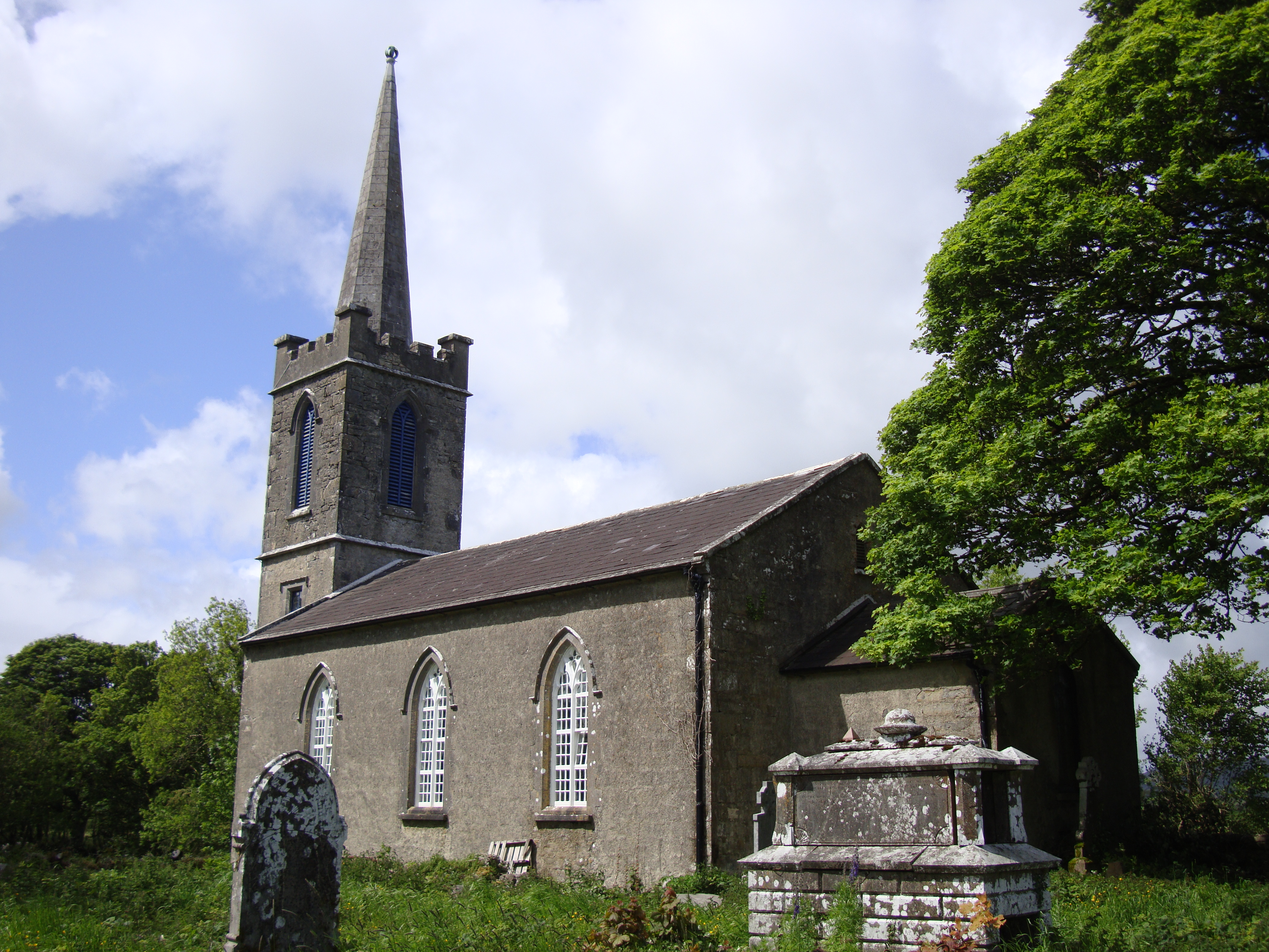 Photograph of Achonry Cathedral, Co. Sligo, Ireland